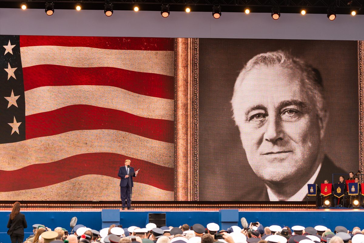 President Donald J. Trump addresses his remarks during a D-Day National Commemorative Event Wednesday, June 5, 2019, at the Southsea Common in Portsmouth, England. (Official White House Photo by Shealah Craighead)